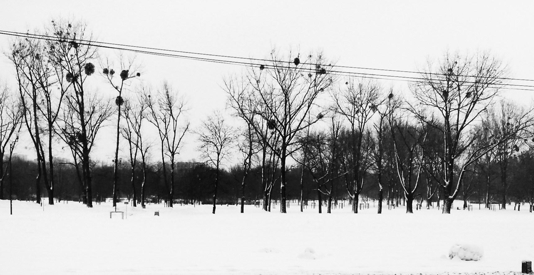 Park of Jan Paul II, Poznan.